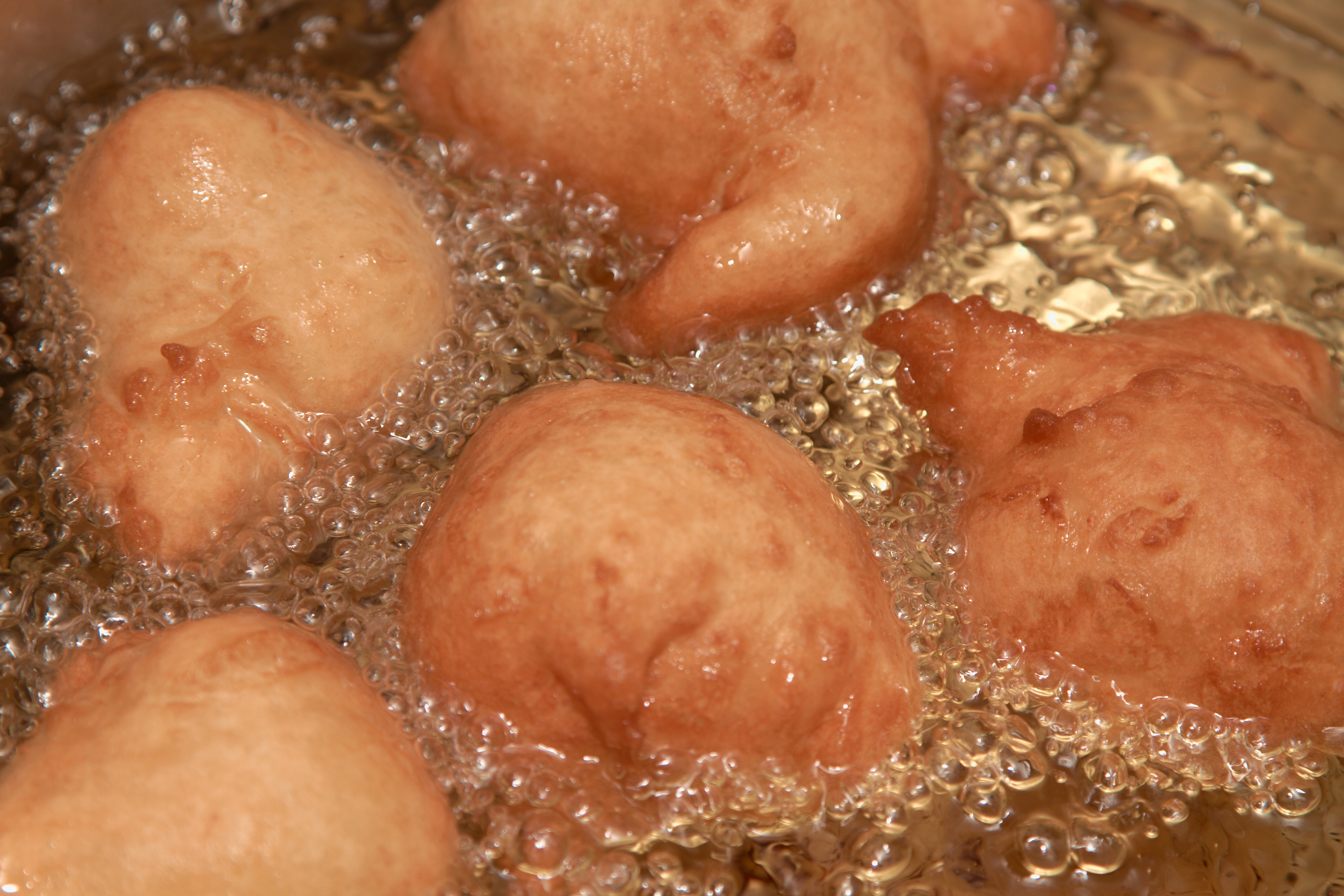 An oliebol is a traditional Dutch food. Oliebollen (literally oil balls) are traditionally eaten on New Year's Eve. Sometimes it is referenced in English as Dutch doughnut.